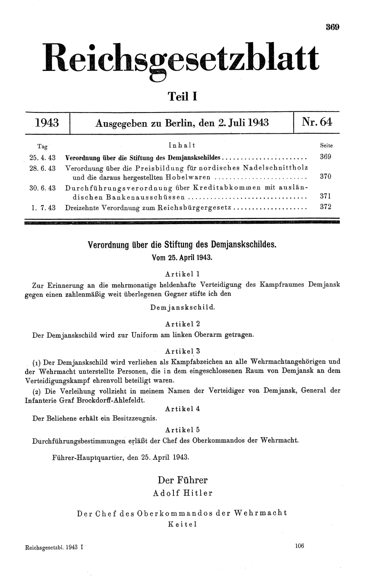 Demjansks shikd certificate